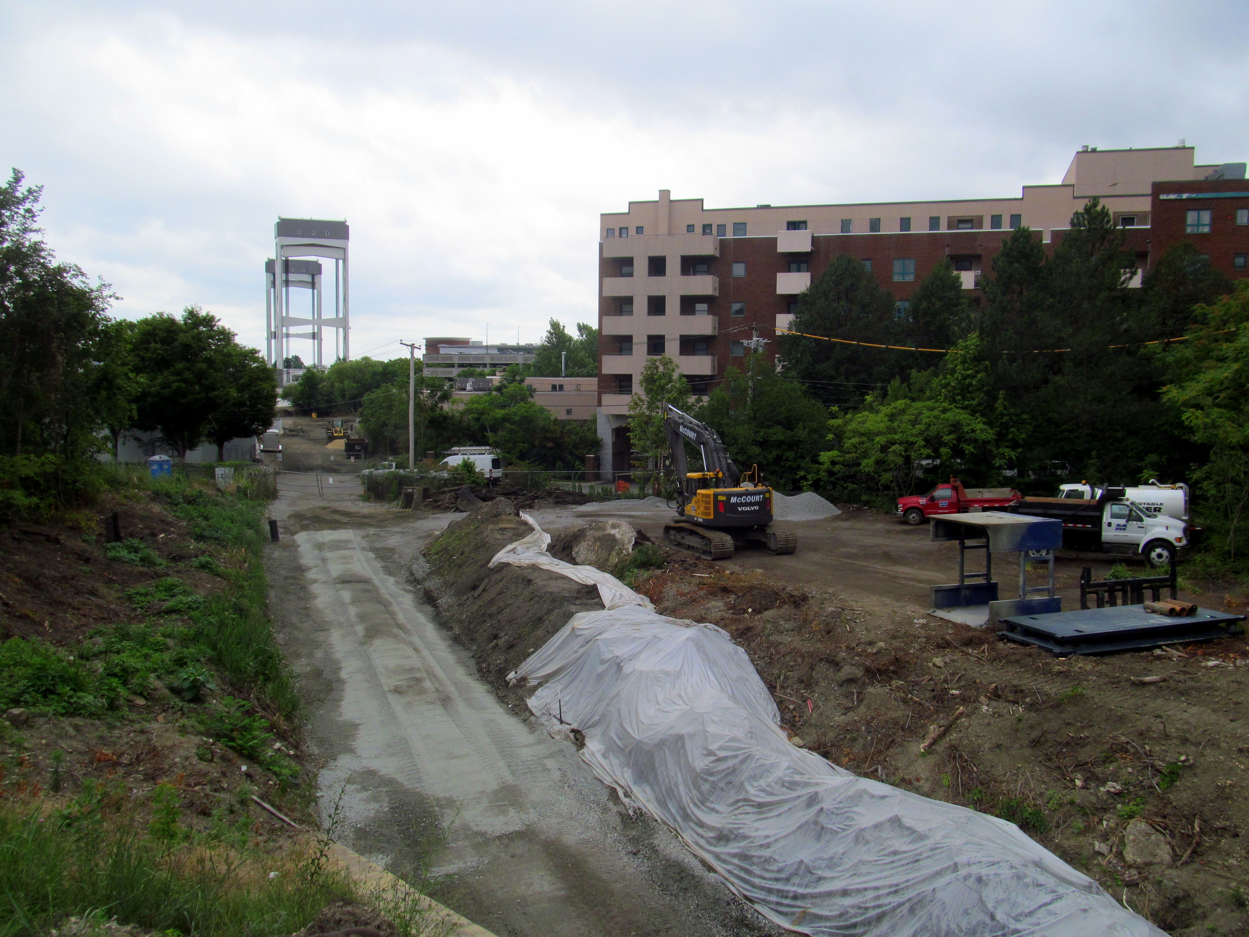 Silver Line busway construction and the Chelsea Street Bridge viewed from Bellingham Street in July 2015